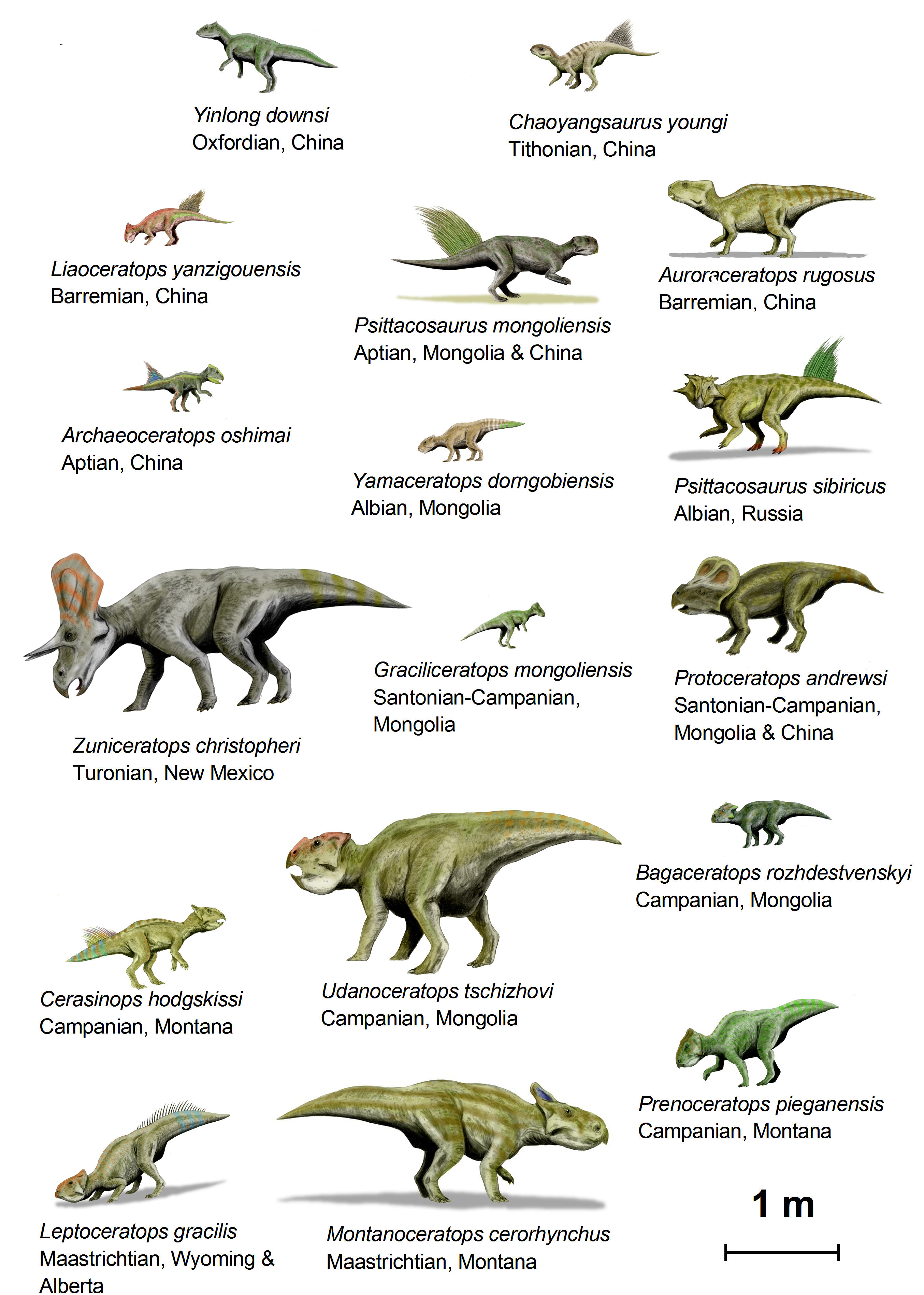 Illustration to scale of 17 species of basal ceratopsia, pencil drawing, digital coloring